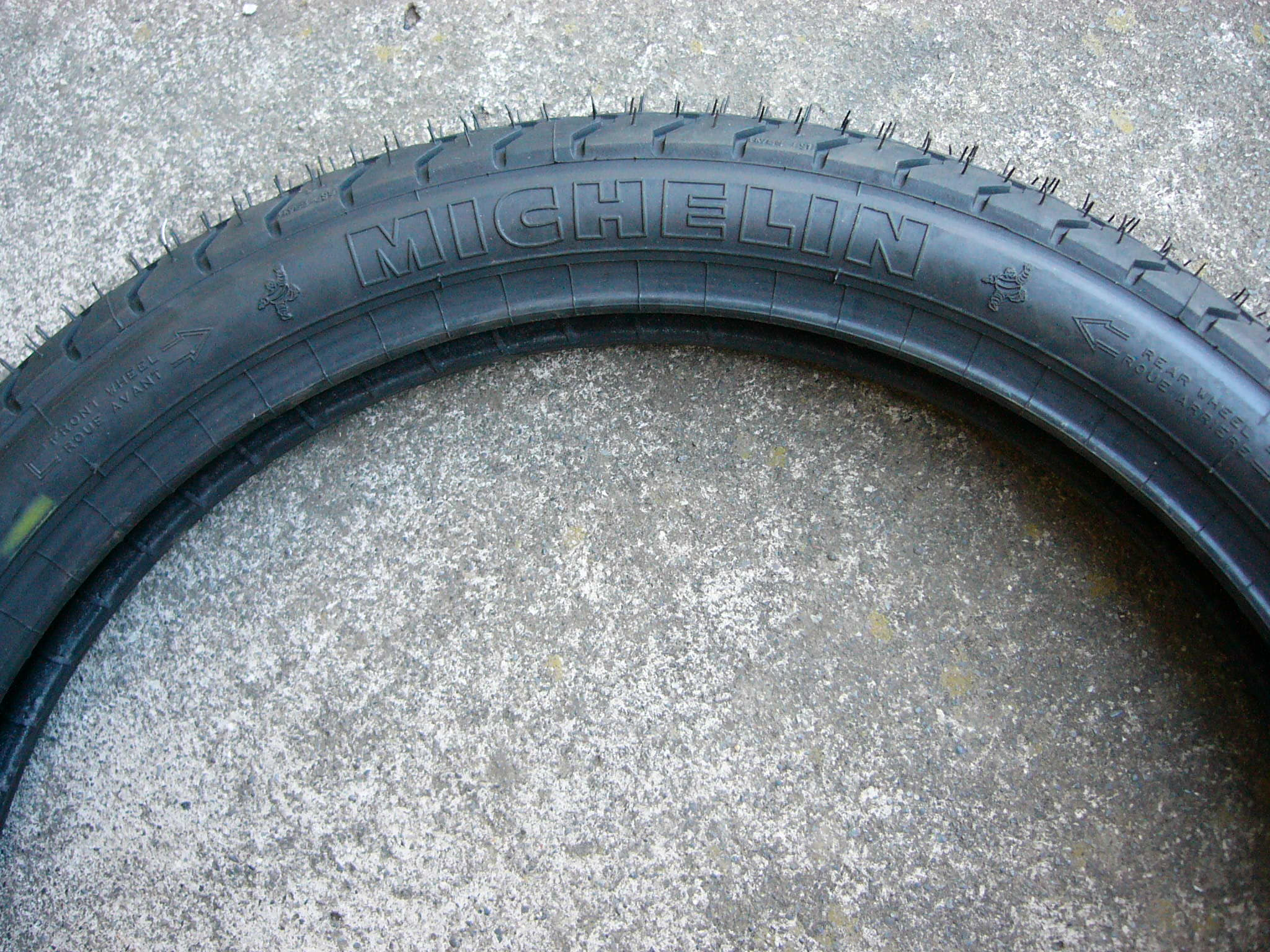 Sidewall of the Michelin · M62 Gazelle. Tire that can be used on both the front and rear wheels. However, specifying the direction of rotation is reversed on the front and rear wheels.